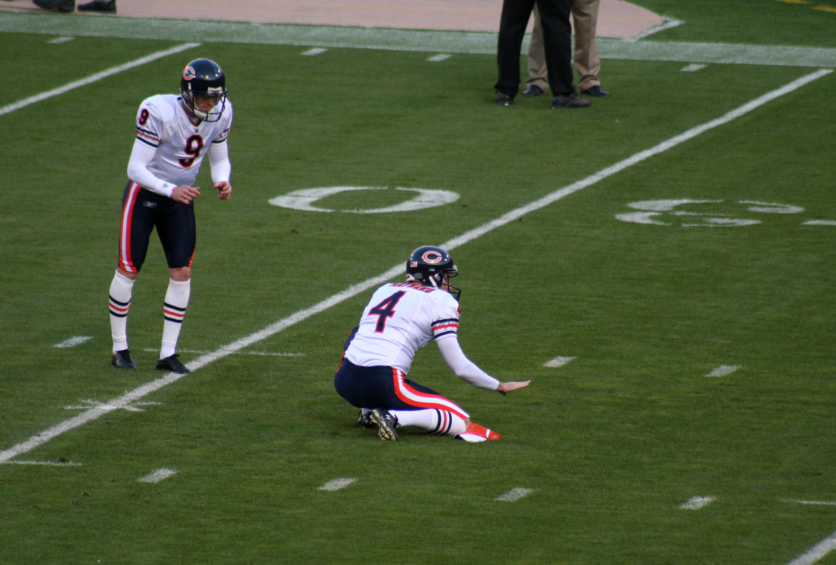 Robbie Gould of the Chicago Bears practicing before a 2009 game against the San Francisco 49ers